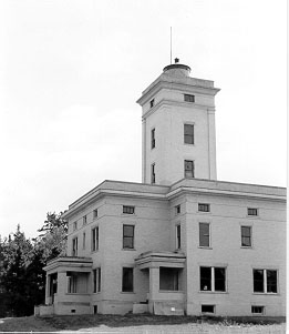 Sand Hills Lighthouse